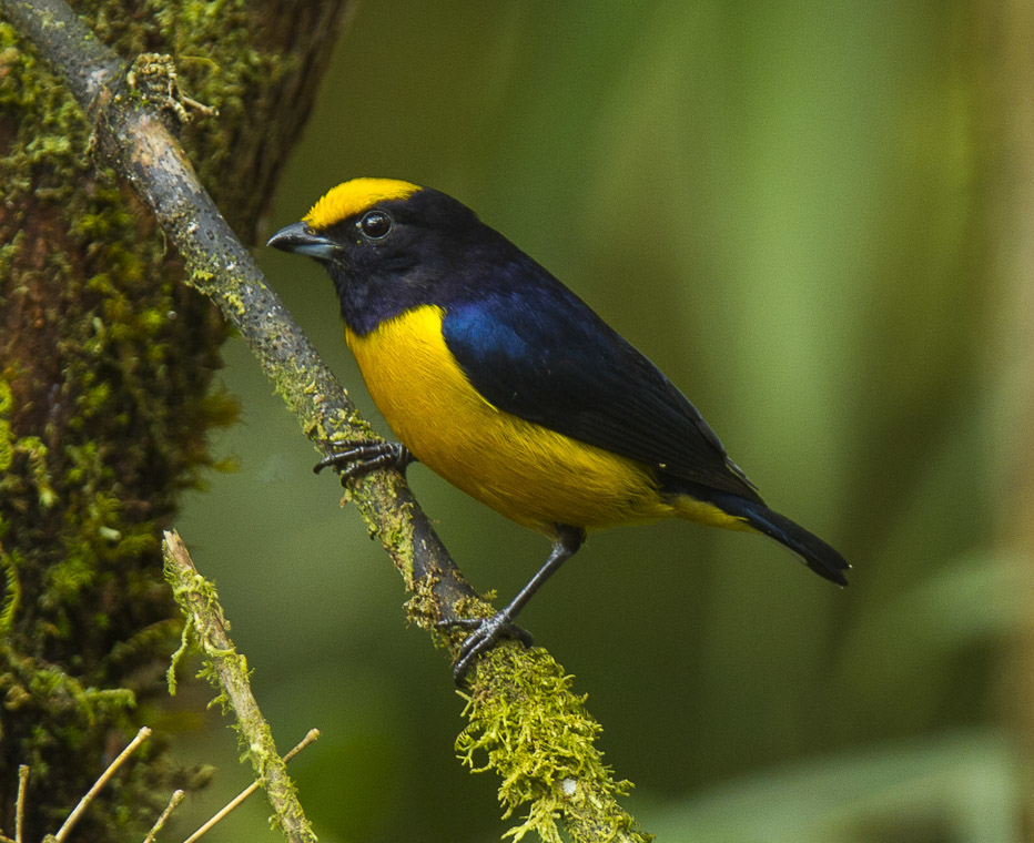 Orange-bellied Euphonia - Ecuador_S4E5535